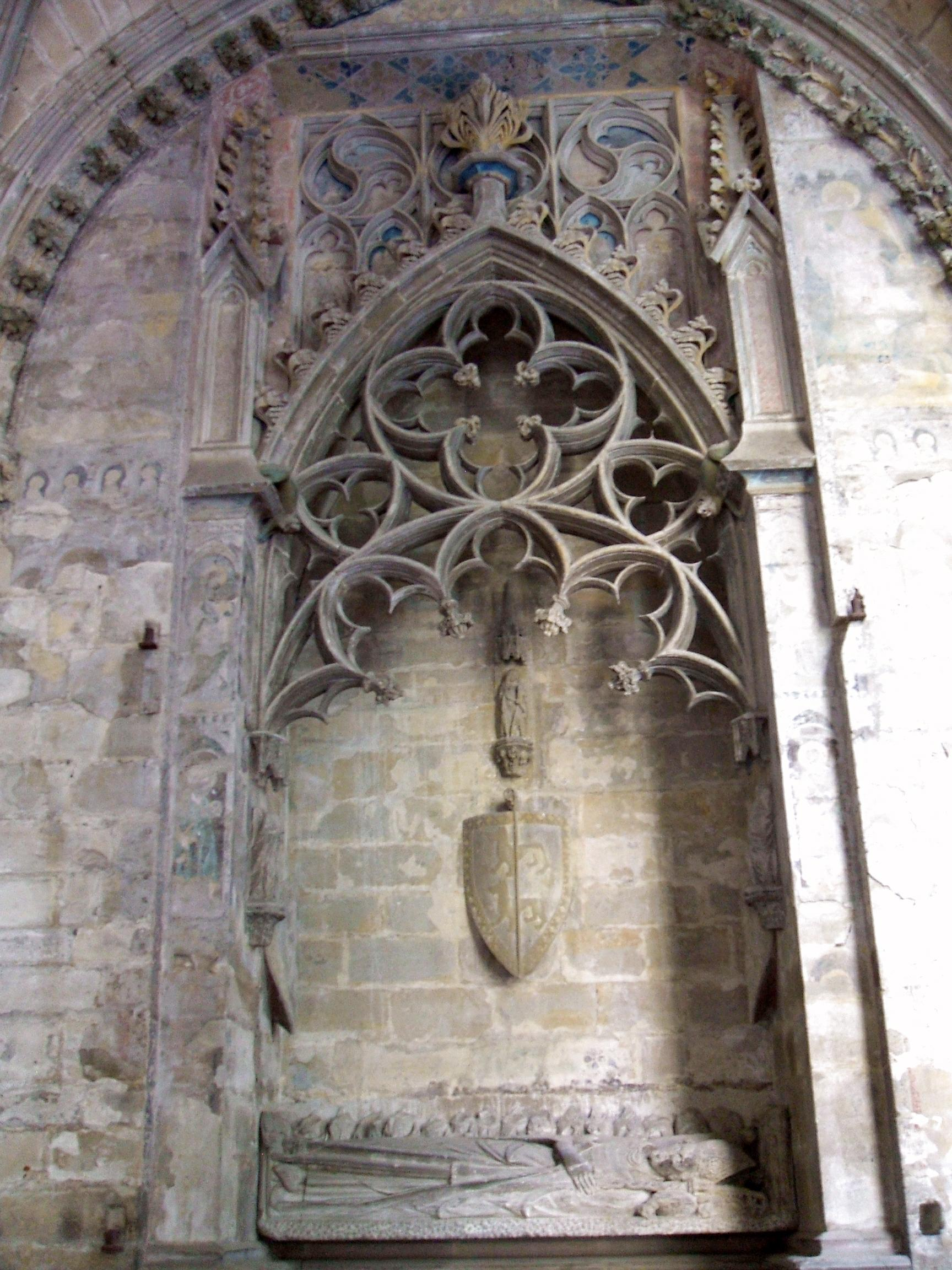 Monumento funerario de estilo gótico flamígero en el claustro de la Catedral de Pamplona (Navarra, España)